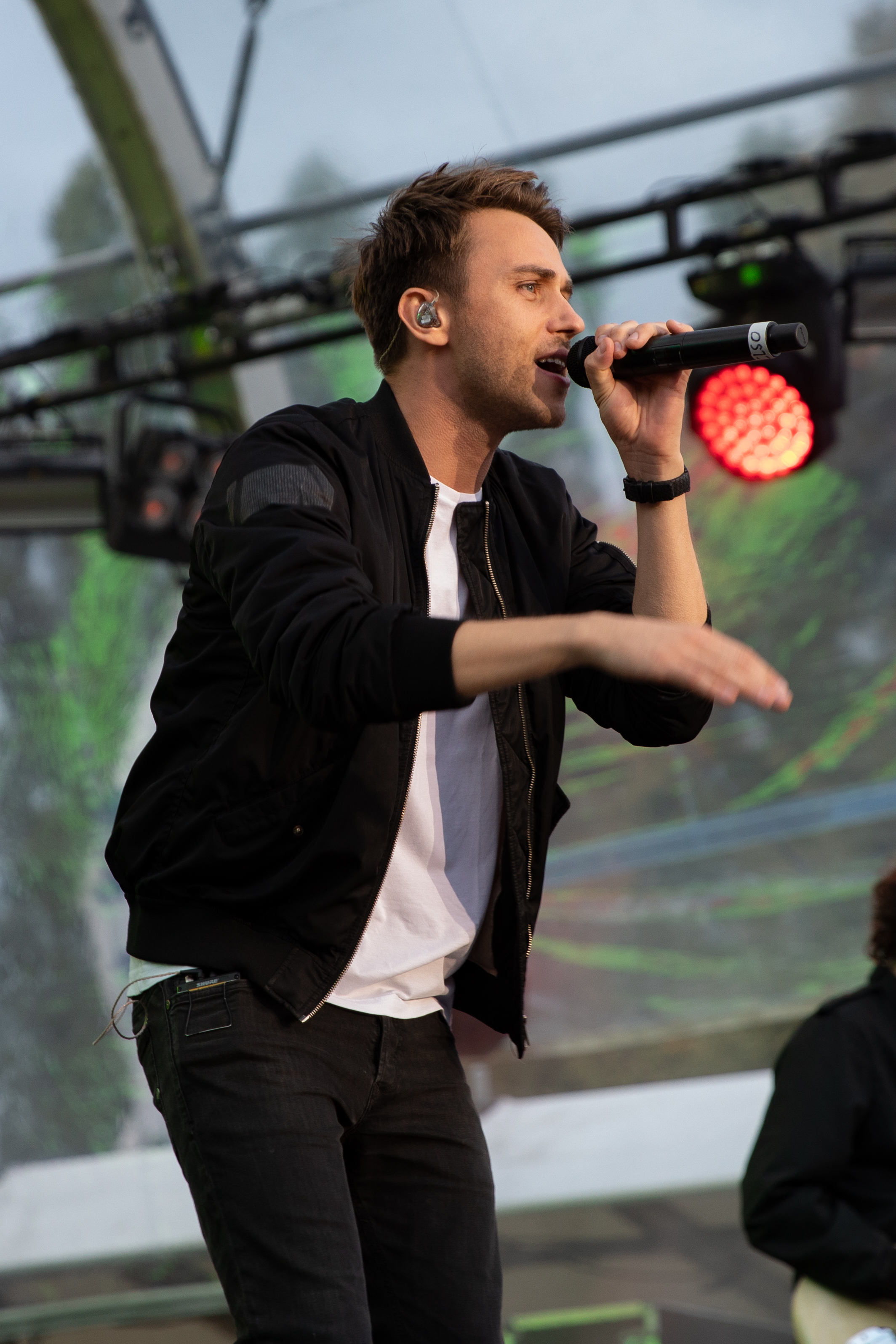 Clueso at Fritz DeutschPoeten 2018